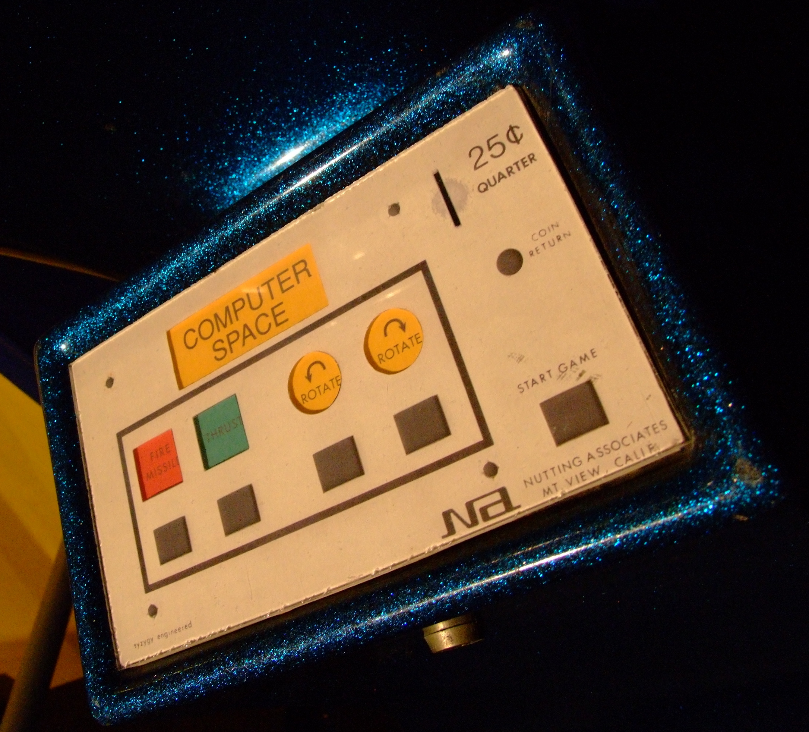 Crop of control panel from Arcade game Computer Space